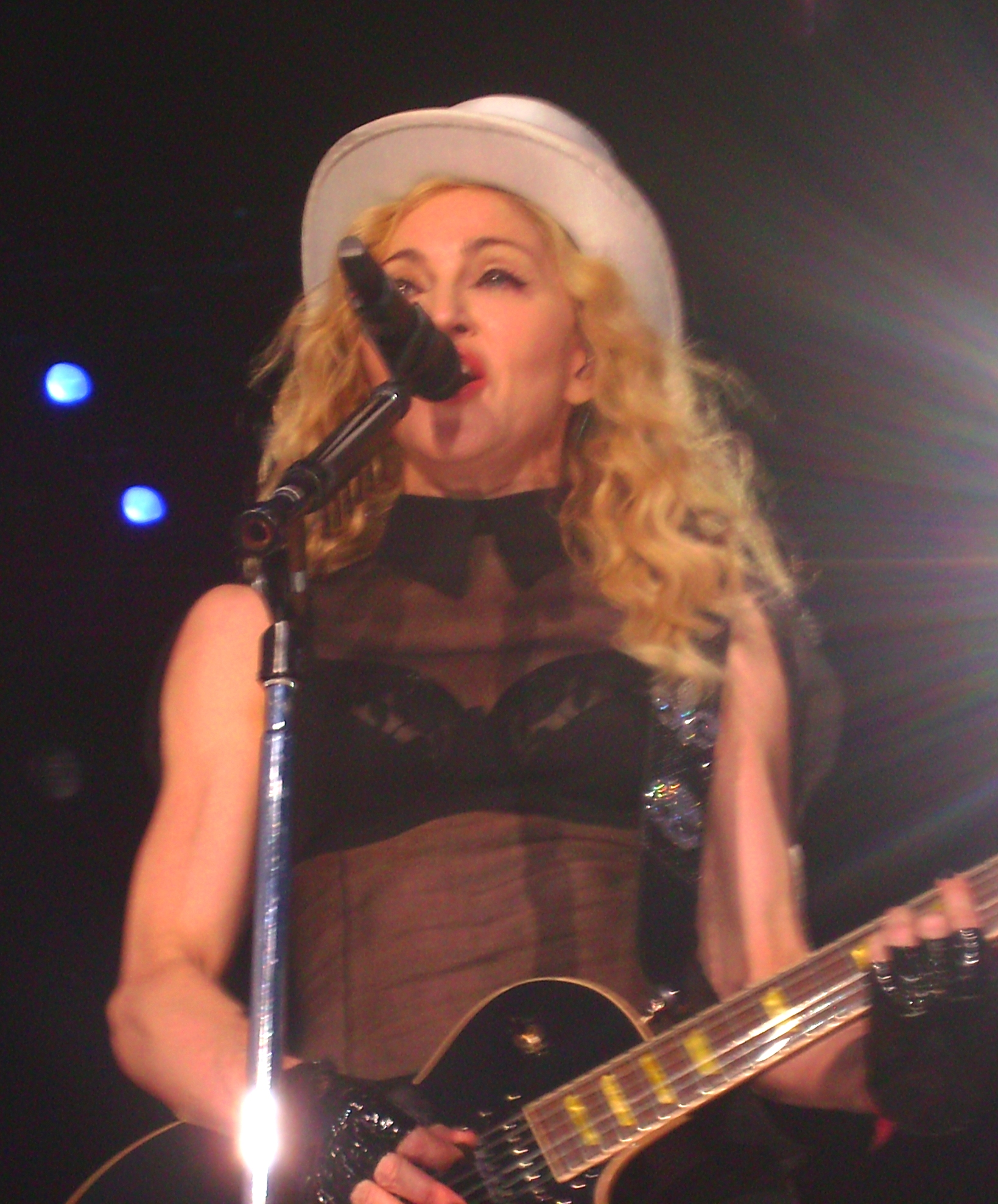 Madonna performing "Human Nature" in Helsinki as part of her Sticky & Sweet Tour